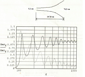 Horn impedance frequency characteristic of an exponential horn with a flare cutoff of 100 Hz